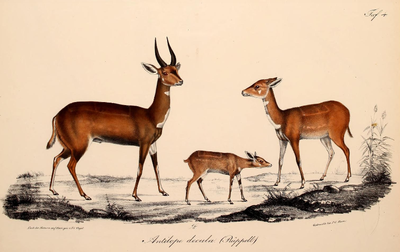 Engraving of Abyssinian bushbuck.